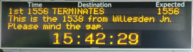 Clapham Junction station in London, electronic information board on platform